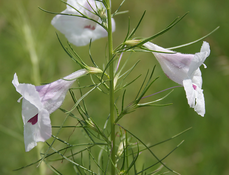 Common Sopubia or Dudhali Sopubia delphinifolia in Hyderabad , India.